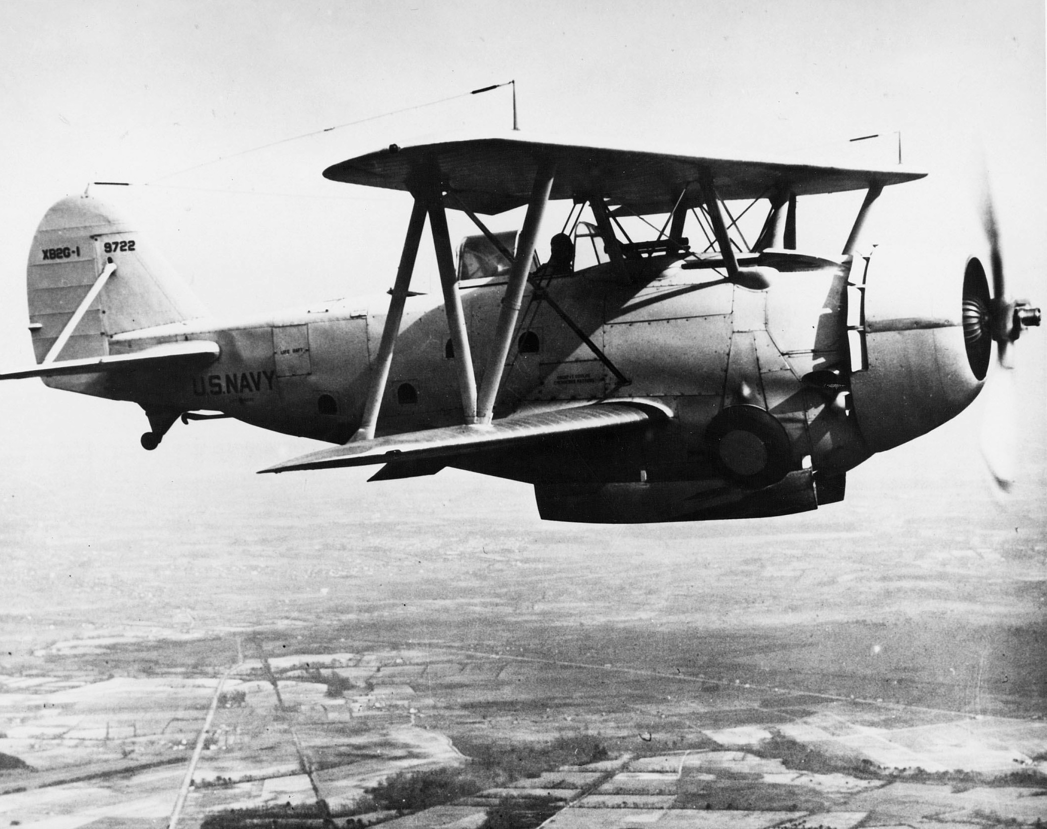 The Great Lakes XB2G-1 (BuNo 9722) in flight in 1936. The XB2G-1 differed from the BG-1 in having a retractable landing gear and an enclosed bomb bay. However, it was outclassed by contemporary monoplanes like the Vought SB2U of the Northrop BT-1. Note the open bomb bay.